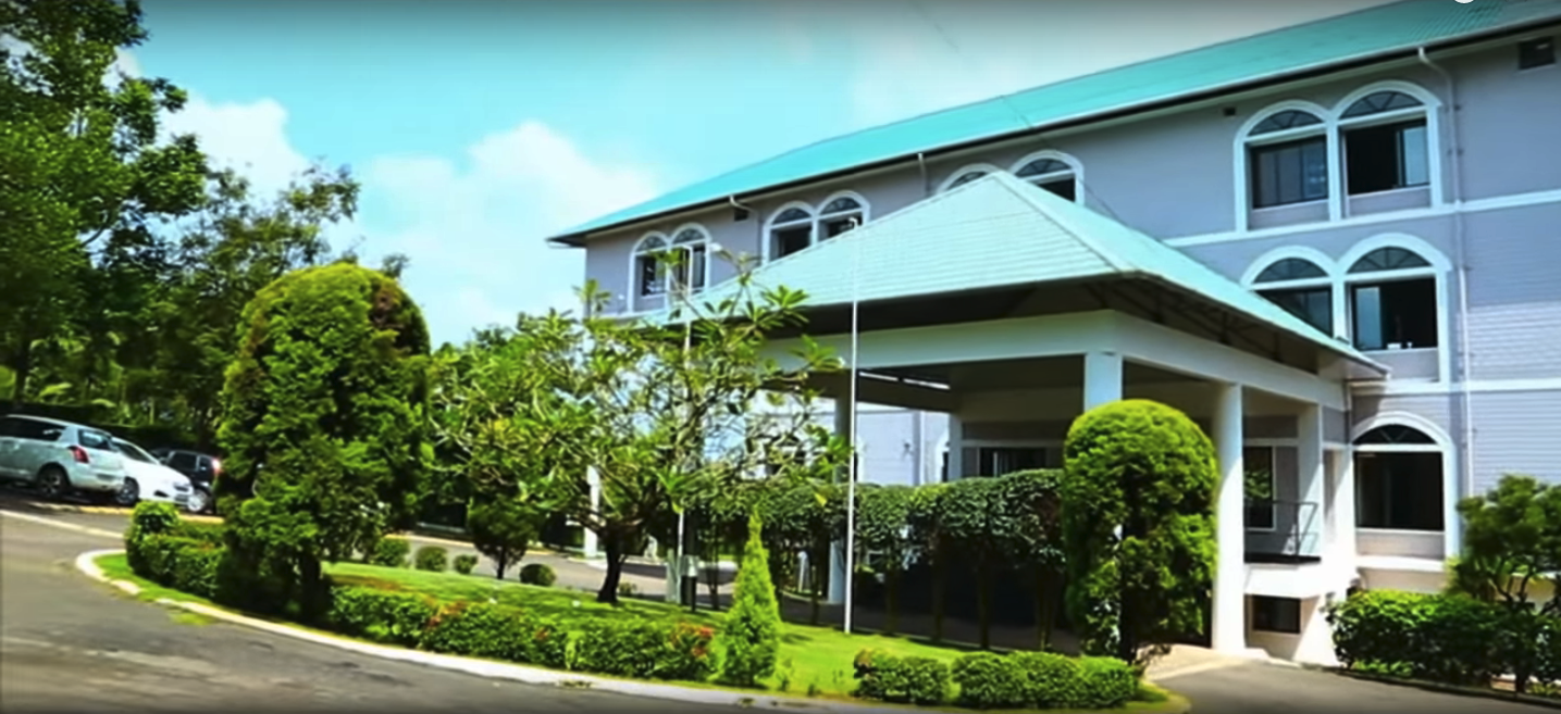 Front view of Global Public School